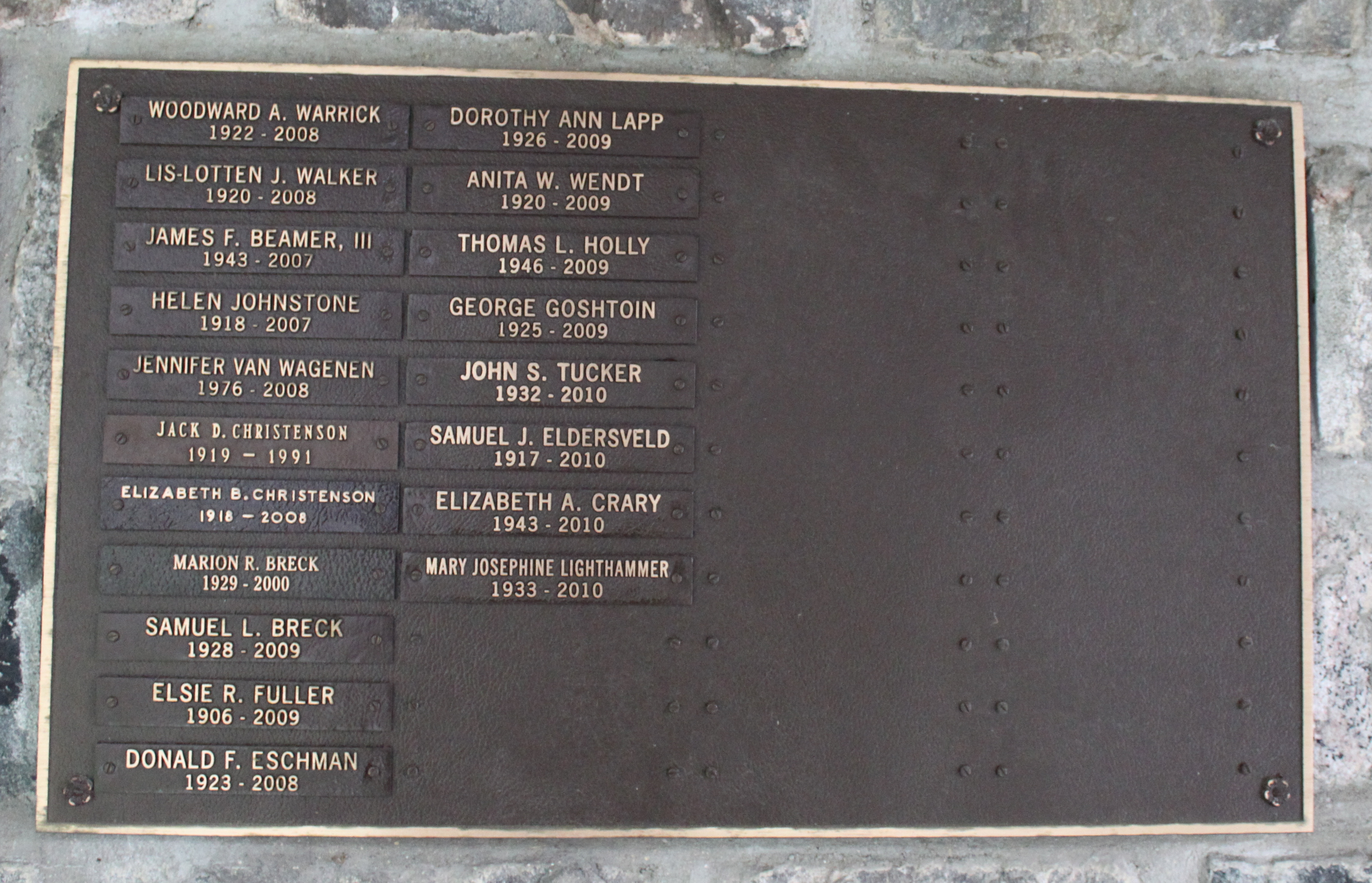 Memorial plaque with name of Samuel J Eldersveld in the Memorial Cloister Garden of St. Andrews Episcopal Church, 306 North Division, Ann Arbor Michigan. A separate plaque explains that the names on the plaques are of those whose cremated ashes were buried in the garden. Eldersveld was a former mayor of Ann Arbor and University of Michigan professor.